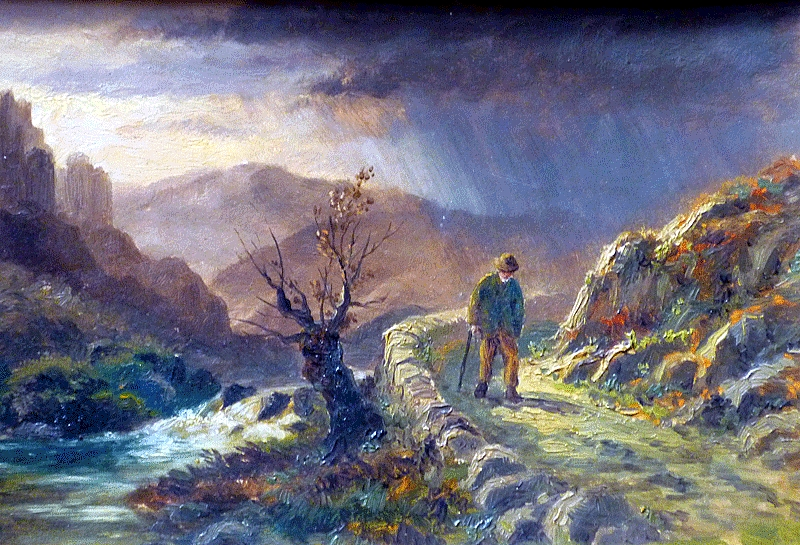 The Lonely Road